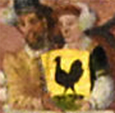 Swantibor I of Pomerania and his wife, Anne of Nuremberg